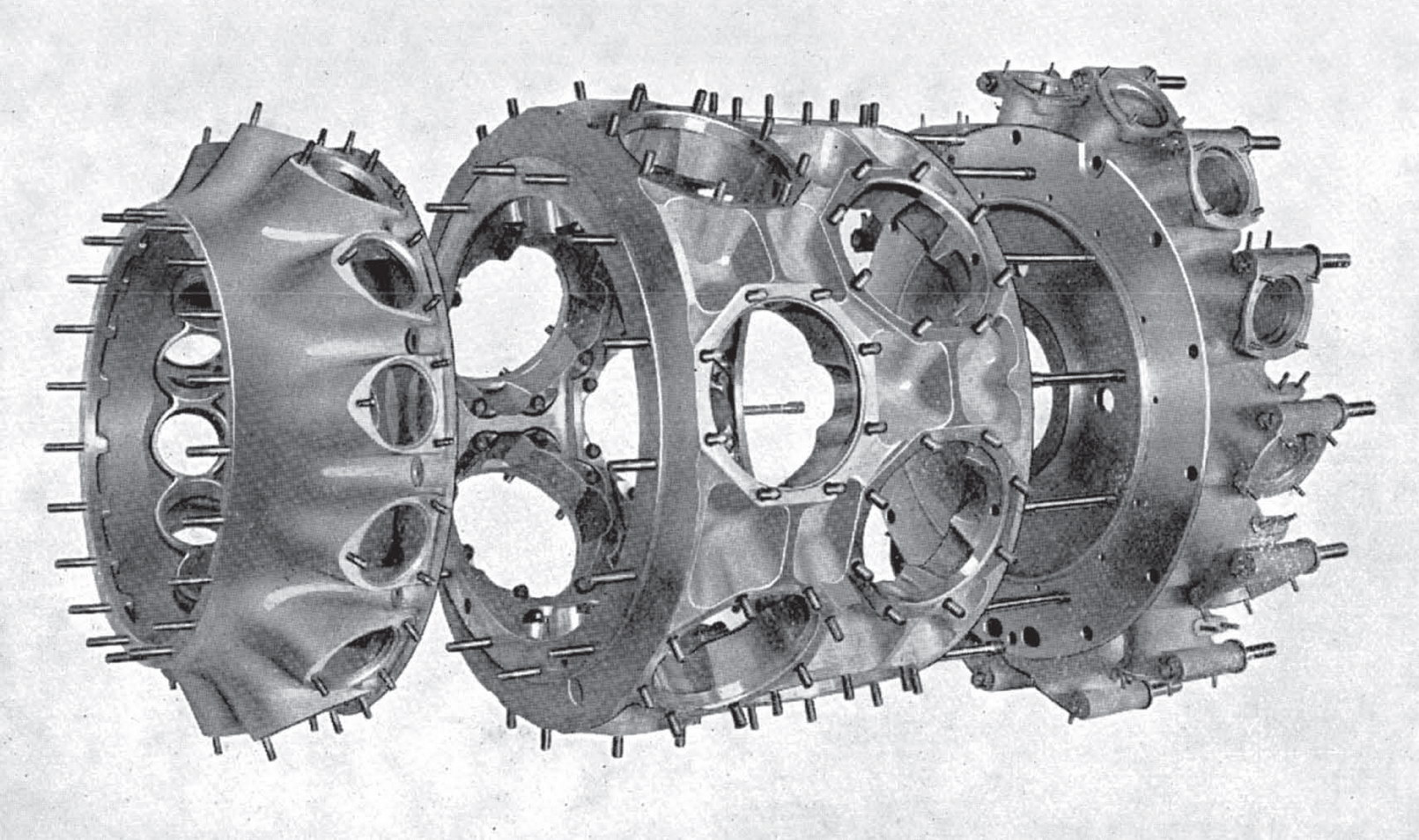 Gnome-Rhône 14N crankcase (constructor document, 1936)